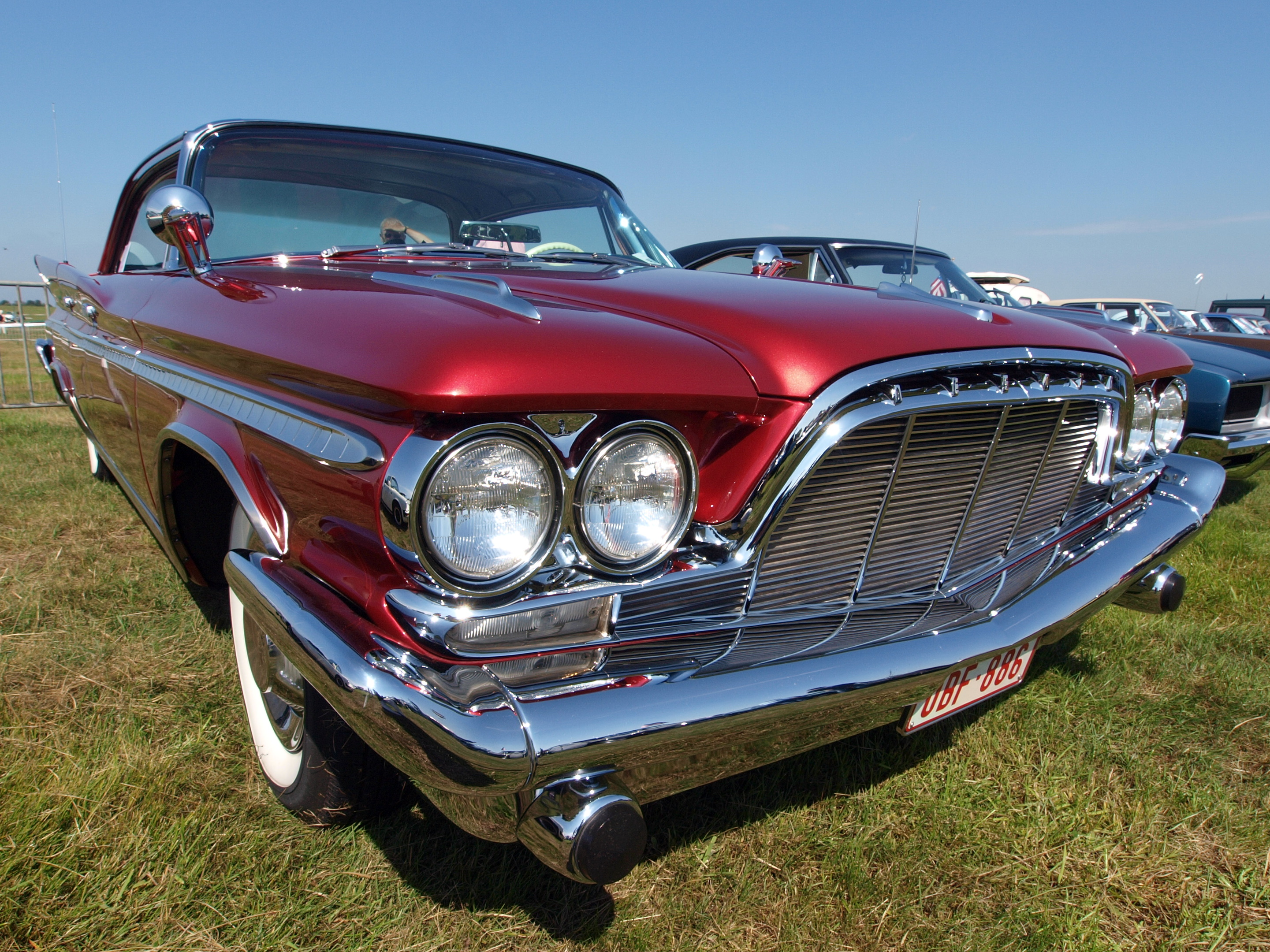 A 1960 DeSoto Adventurer at The International Oldtimer Fly and Drive In 2010, Schaffen-Diest, Belgium.